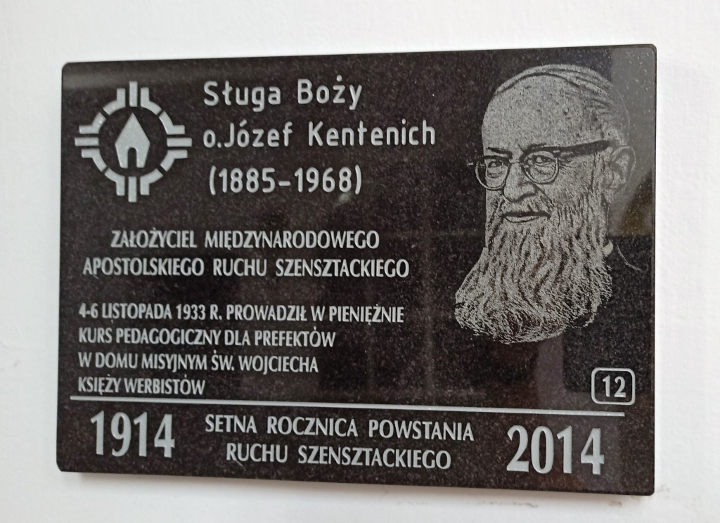 Josef Kentenich Józef Kenterich